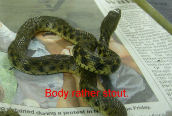 Identifying characters of Chequered Keelback Xenochrophis piscator Family Colubridae, Serpentes (Snakes) Char 7 - Body rather stout. Photographed at Binnaguri, North Bengal, India on 23 Sep 06. Self-work. AshLin 13:53, 26 September 2006 (UTC)